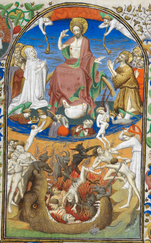 Miniature of the Last Judgement; from BL Add MS 18850, f. 157r (the "Bedford Hours"). Held and digitised by the British Library.